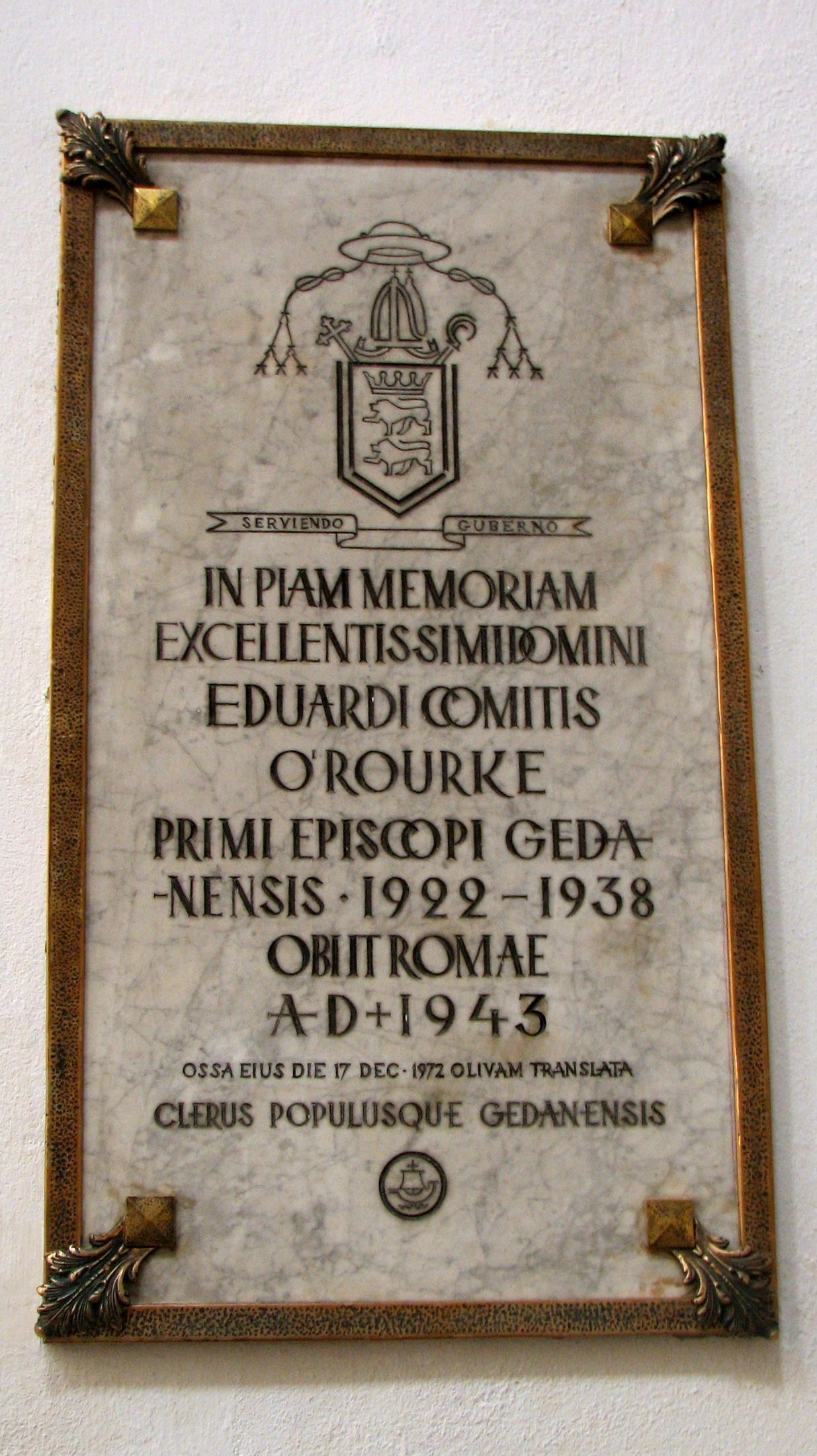 Plaque to bishop Edward O'Rourke in Oliwa Cathedral in Gdańsk.